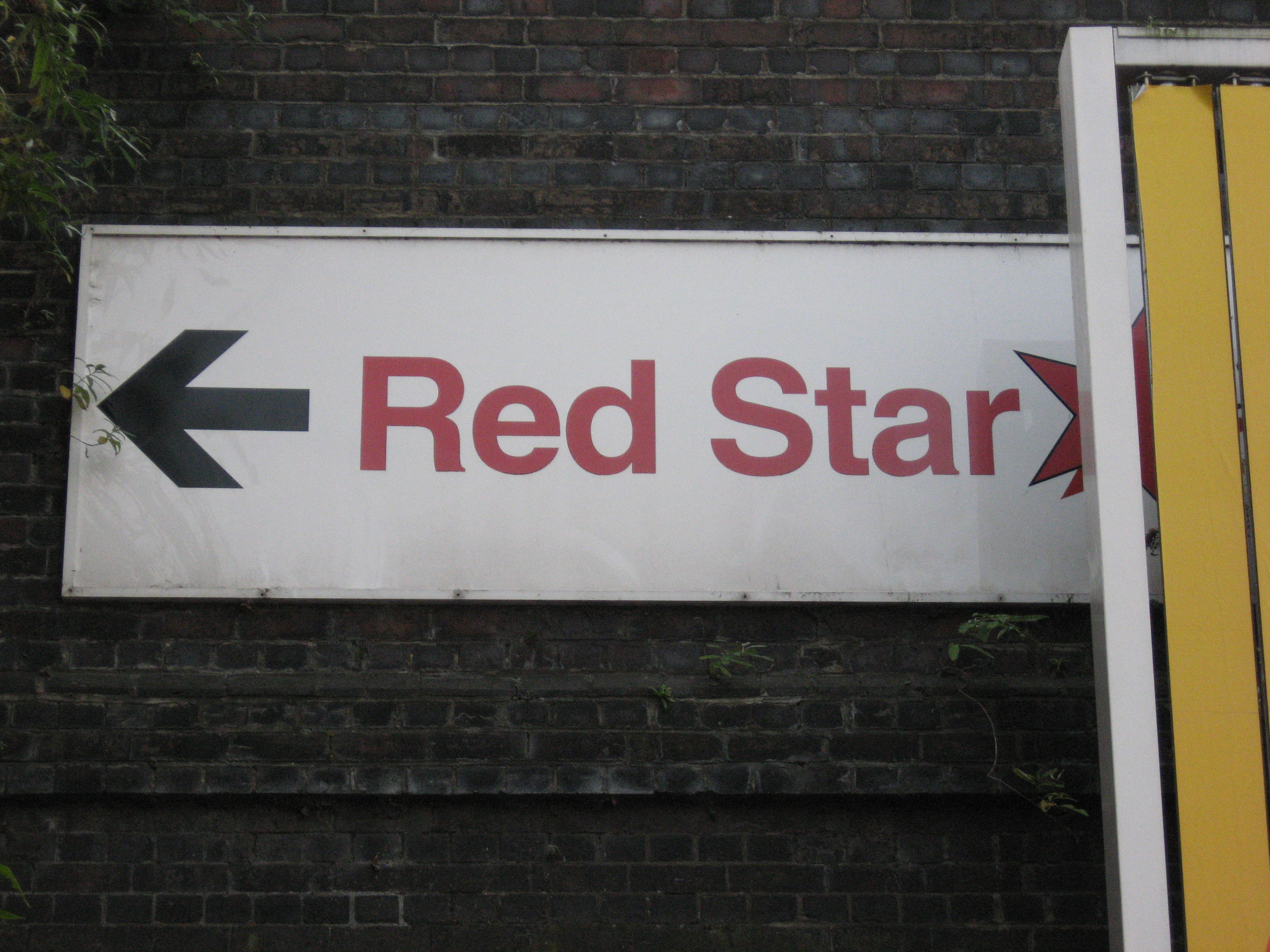 Red Star Parcels sign at Reading railway station, England, partly obscured by new advertising hoarding, photographed 2009-10-14